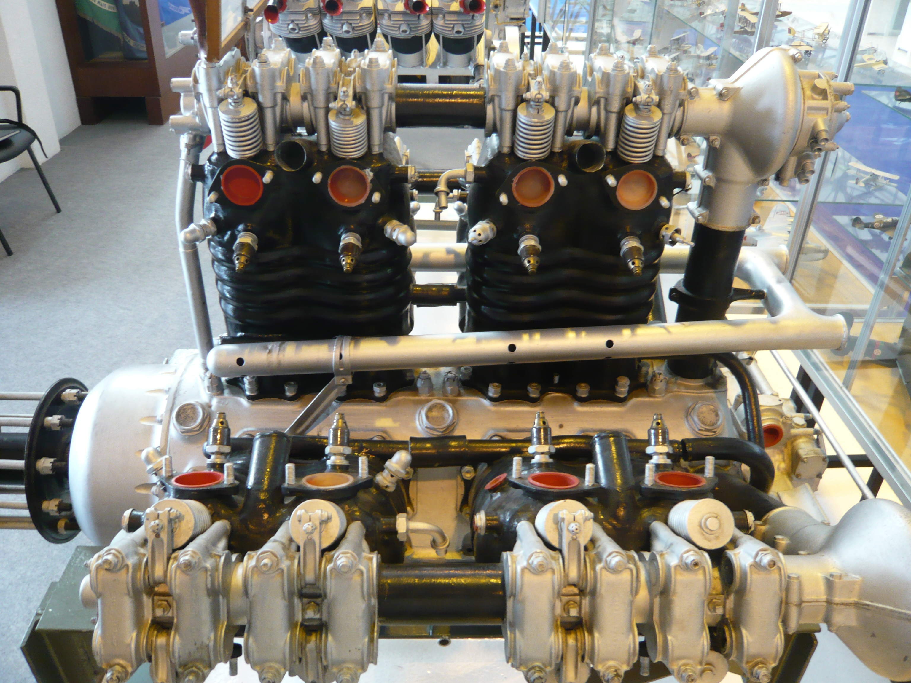 Motor Lorraine Dietrich de 450 cv do Dornier Wal "Argus", que fez o 1º voo nocturno do Atlântico Sul, em 1927. Lorraine Dietrich engine from the Dornier Wal "Argus". This aircraft made the 1st South Atlantic night crossing in 1927